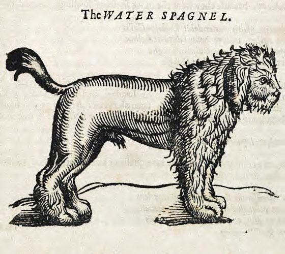 This woodcut is an illustration from the book The history of four-footed beasts and serpents by Edward Topsell, printed by E. Cotes for G. Sawbridge, T. Williams and T. Johnson in London in 1658.